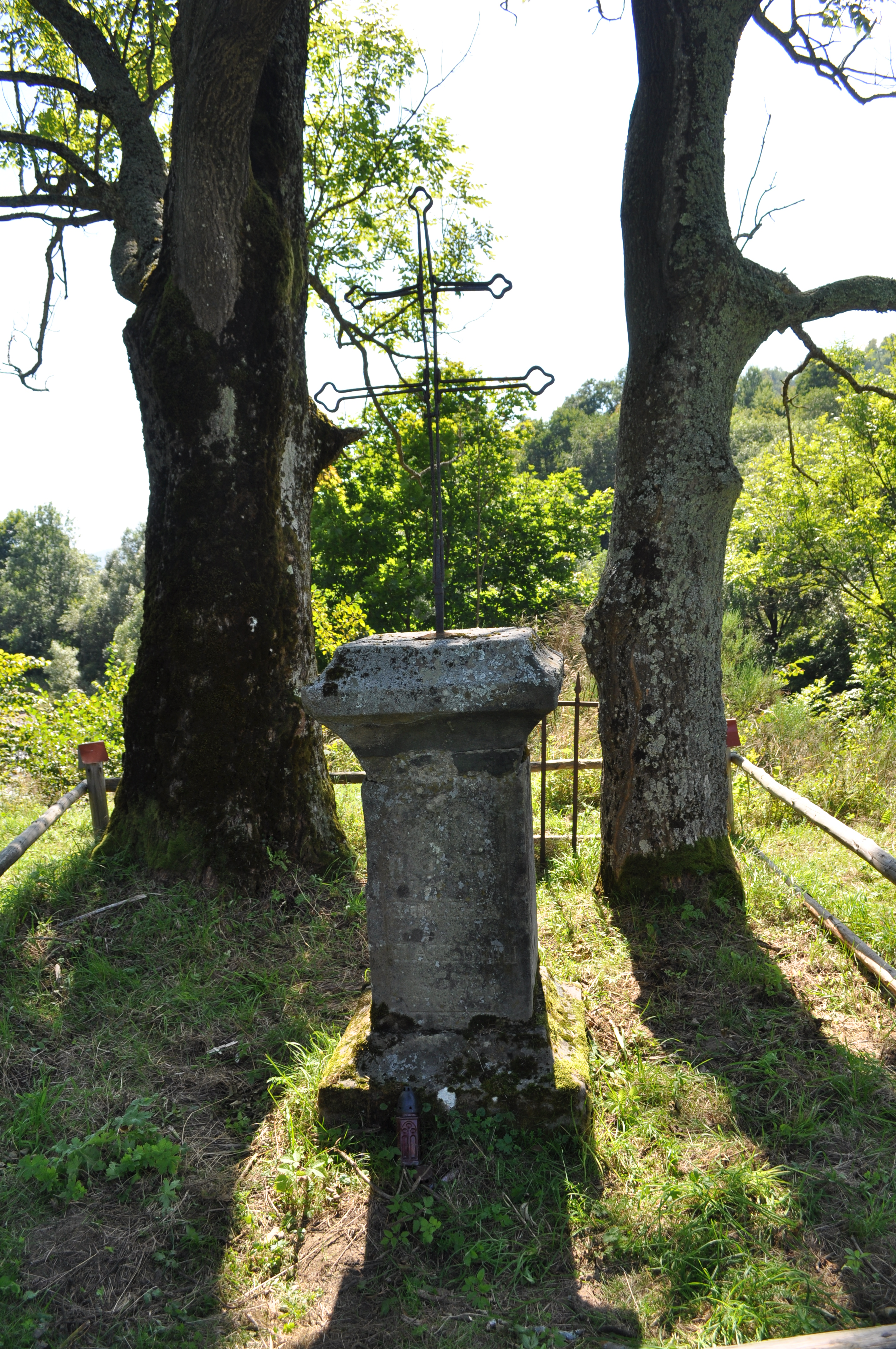 Ghost city Jaworzec